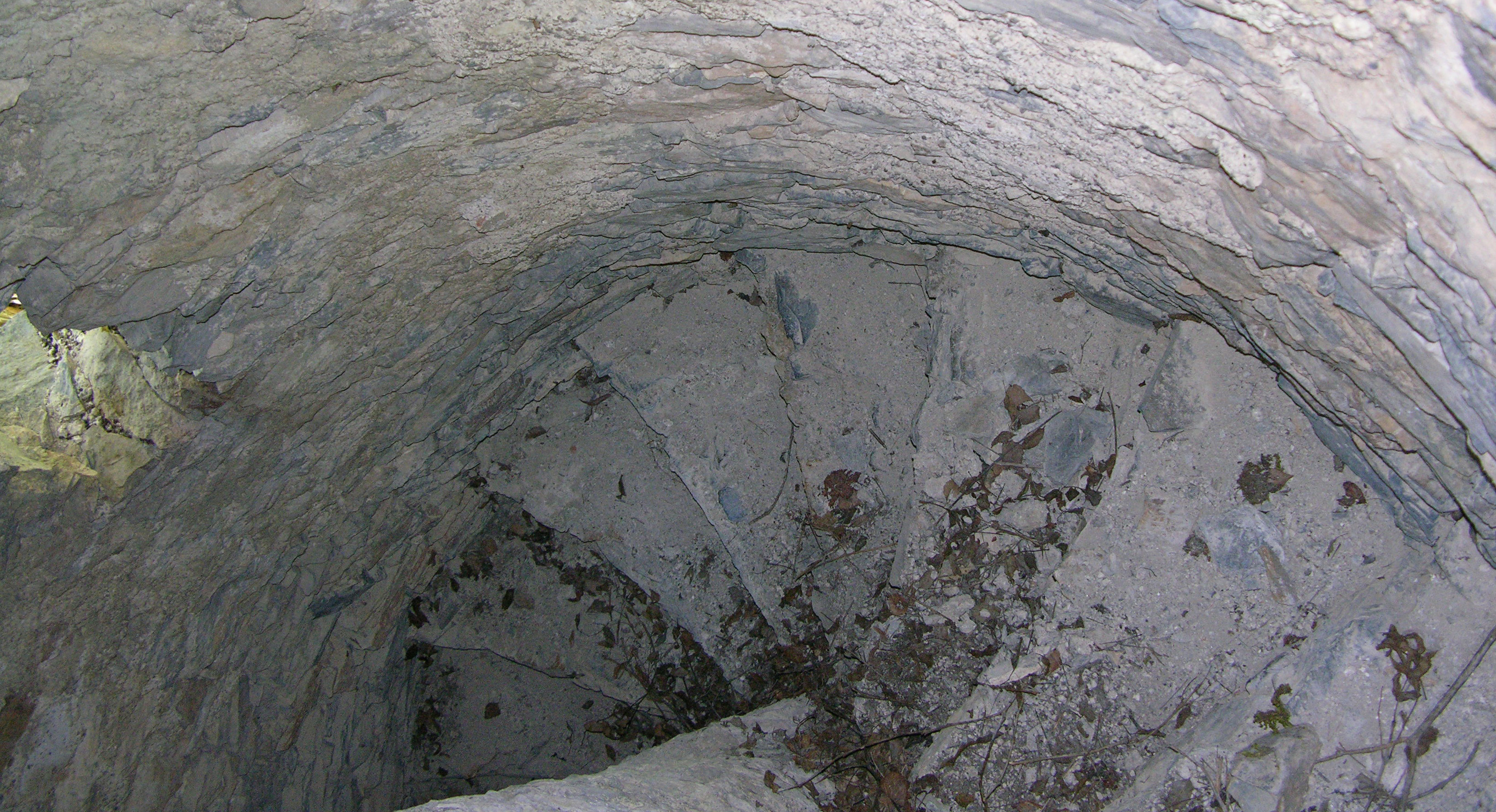 Winding staircase Waisenberg